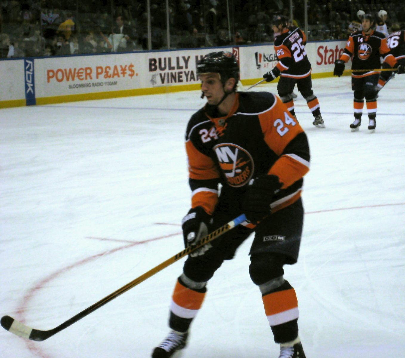 Radek Martinek during pre-game warmups before the Islanders vs. Bruins game 11/24/07 at Nassau Coliseum.